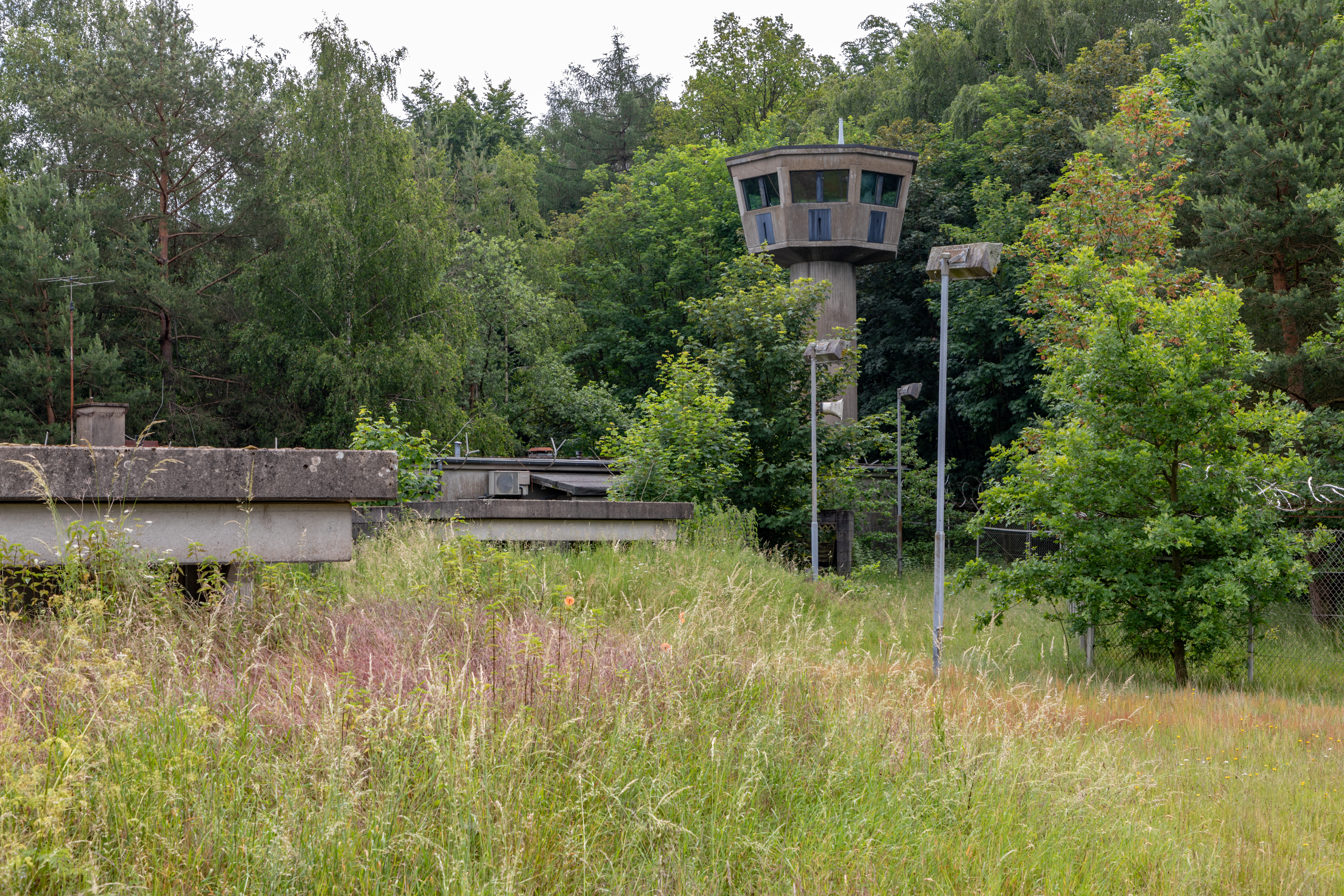 Big watchtower in the former arsenal in the Dernekamp hamlet, Kirchspiel, Dülmen, North Rhine-Westphalia, Germany This image shows a heritage building in Germany, located in the North Rhine-Westphalian city Dülmen (no. 132).